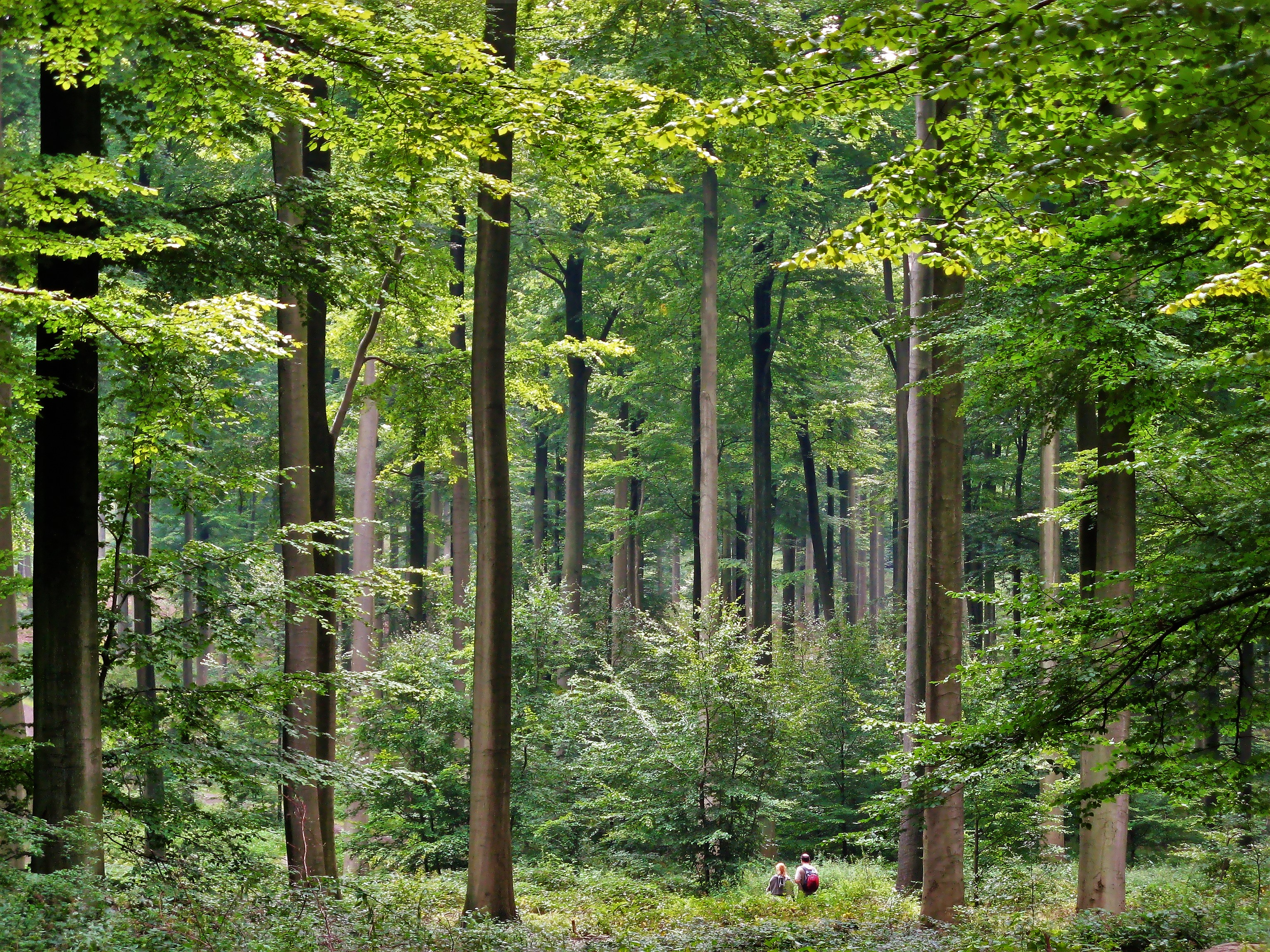 even, dense and old stand of beech trees (Fagus sylvatica) prepared to be regenerated (watch the young trees underneath the old ones) in the Brussels part of the Sonian Forest (Forêt de Soignes - Zoniënwoud) in Belgium